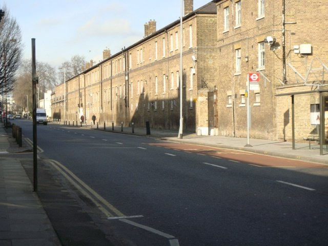 Albany Street Barracks The Barracks in Albany Street originally housed cavalry which was relocated to St John's Wood Barracks in the latter part of the 20th century.